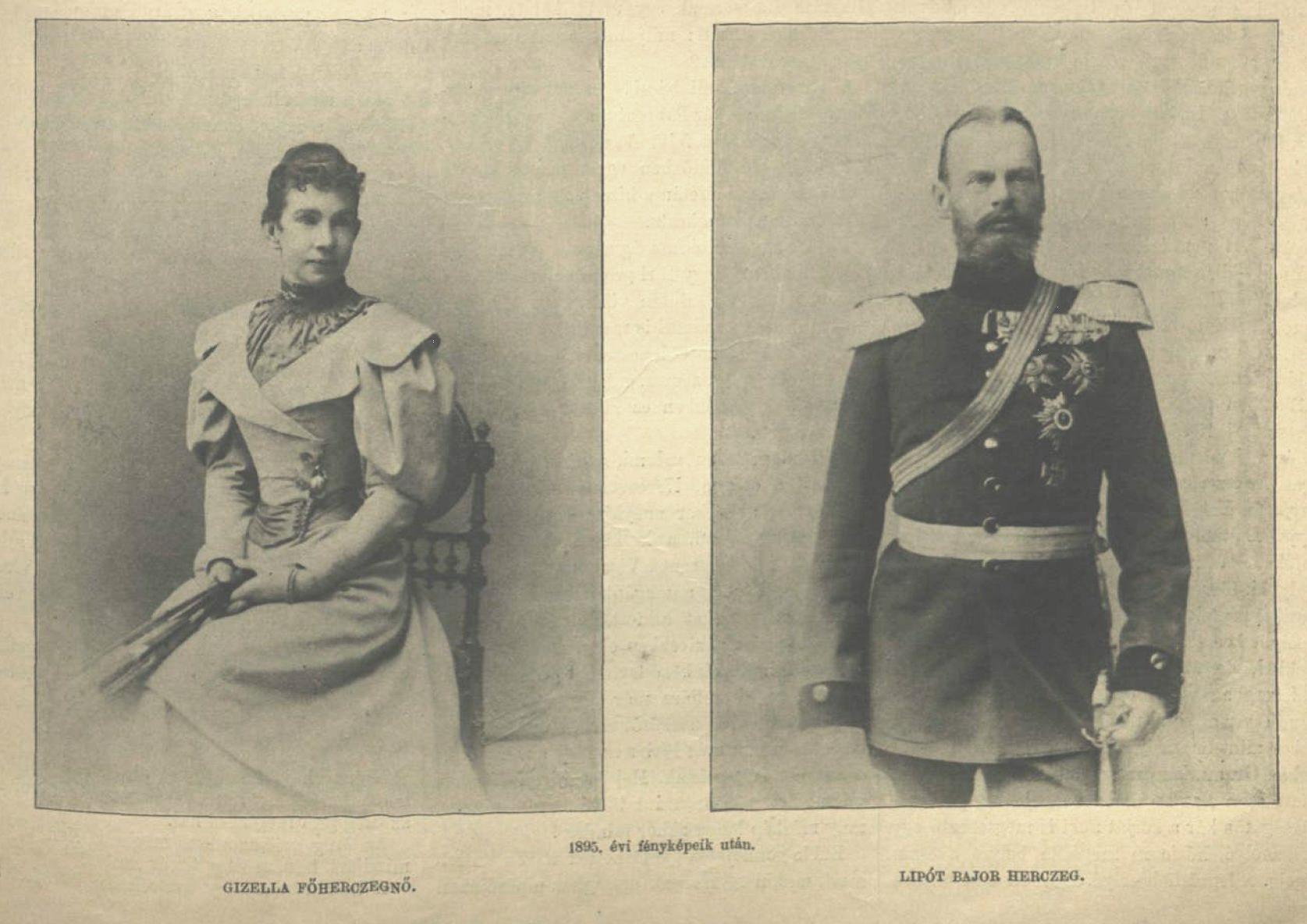 Archduchess Gisela of Austria and her husband Prince Leopold of Bavaria